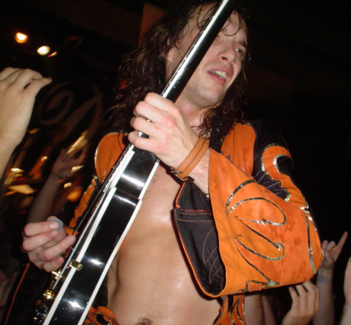 Justin Hawkins, performing with The Darkness at The Gaelic Club